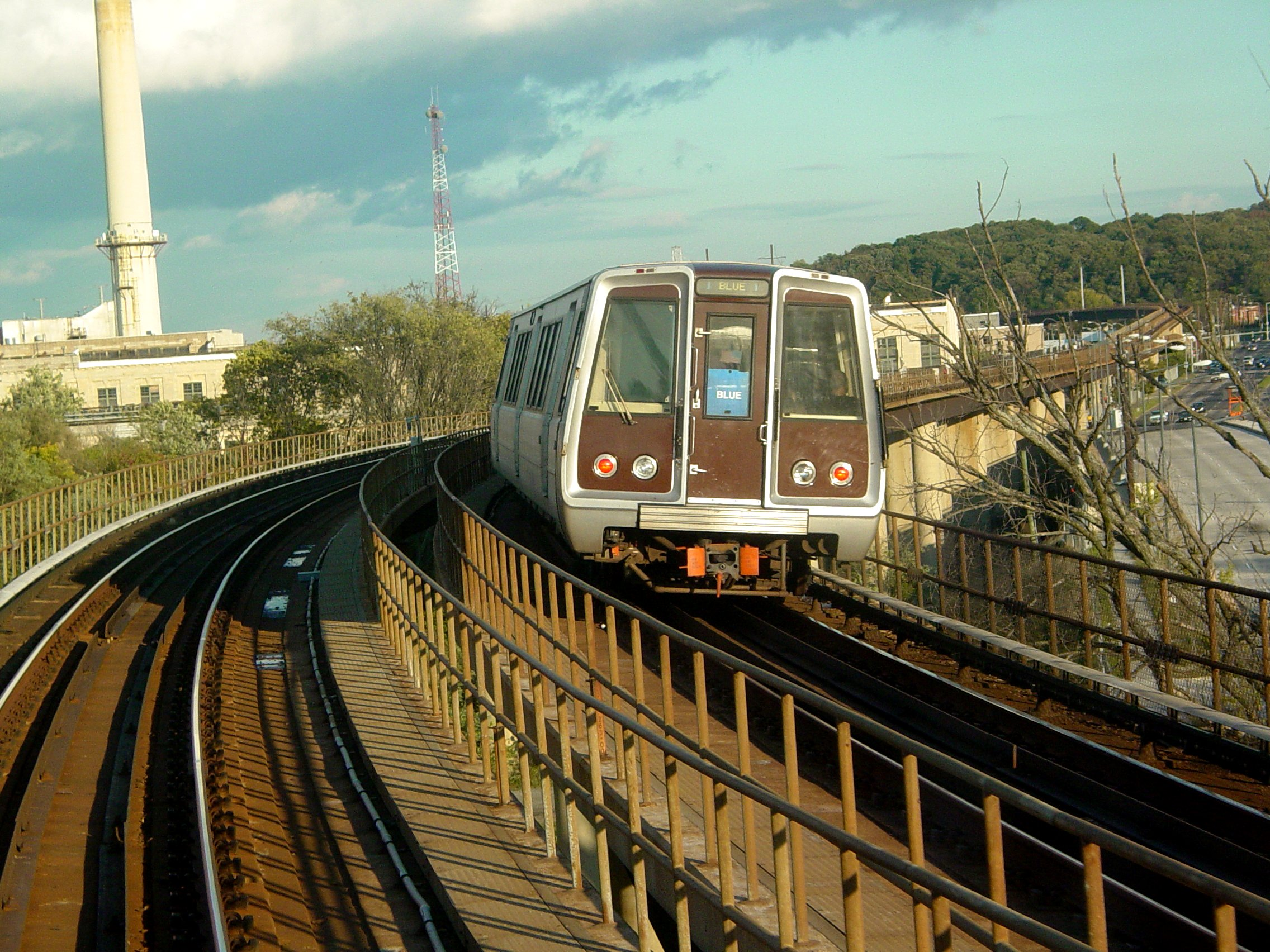 A Breda 3000-Series car with Blue Line markings crosses the D Route bridge east of Stadium-Armory station in Washington DC.